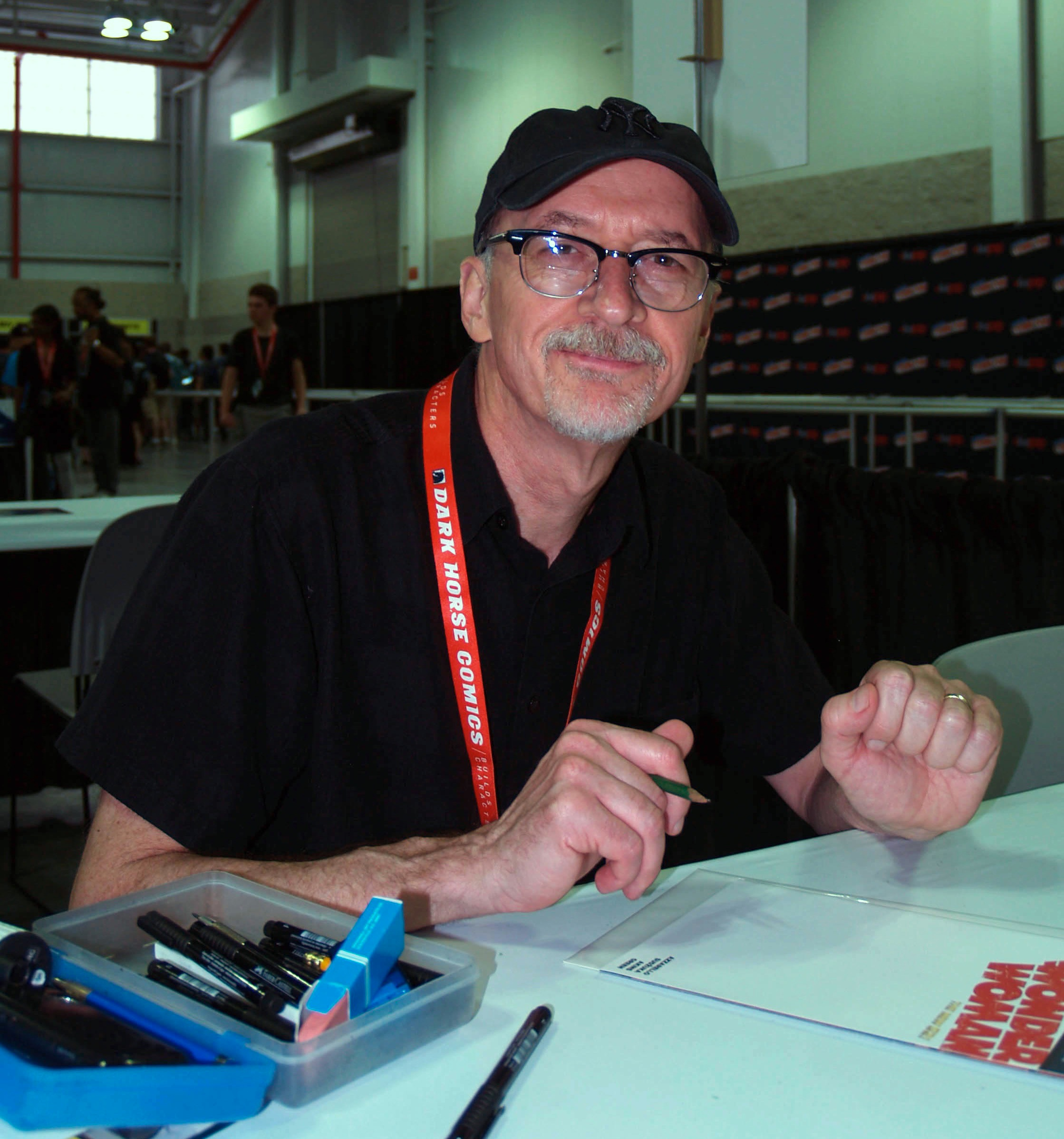 Comics artist Kevin Nowlan on Saturday, June 14, 2014, Day 1 of Special Edition NYC, a comic book convention at the Jacob K. Javits Convention Center in Manhattan. This photo was created by Luigi Novi. It is not in the public domain, and use of this file outside of the licensing terms is a copyright violation.